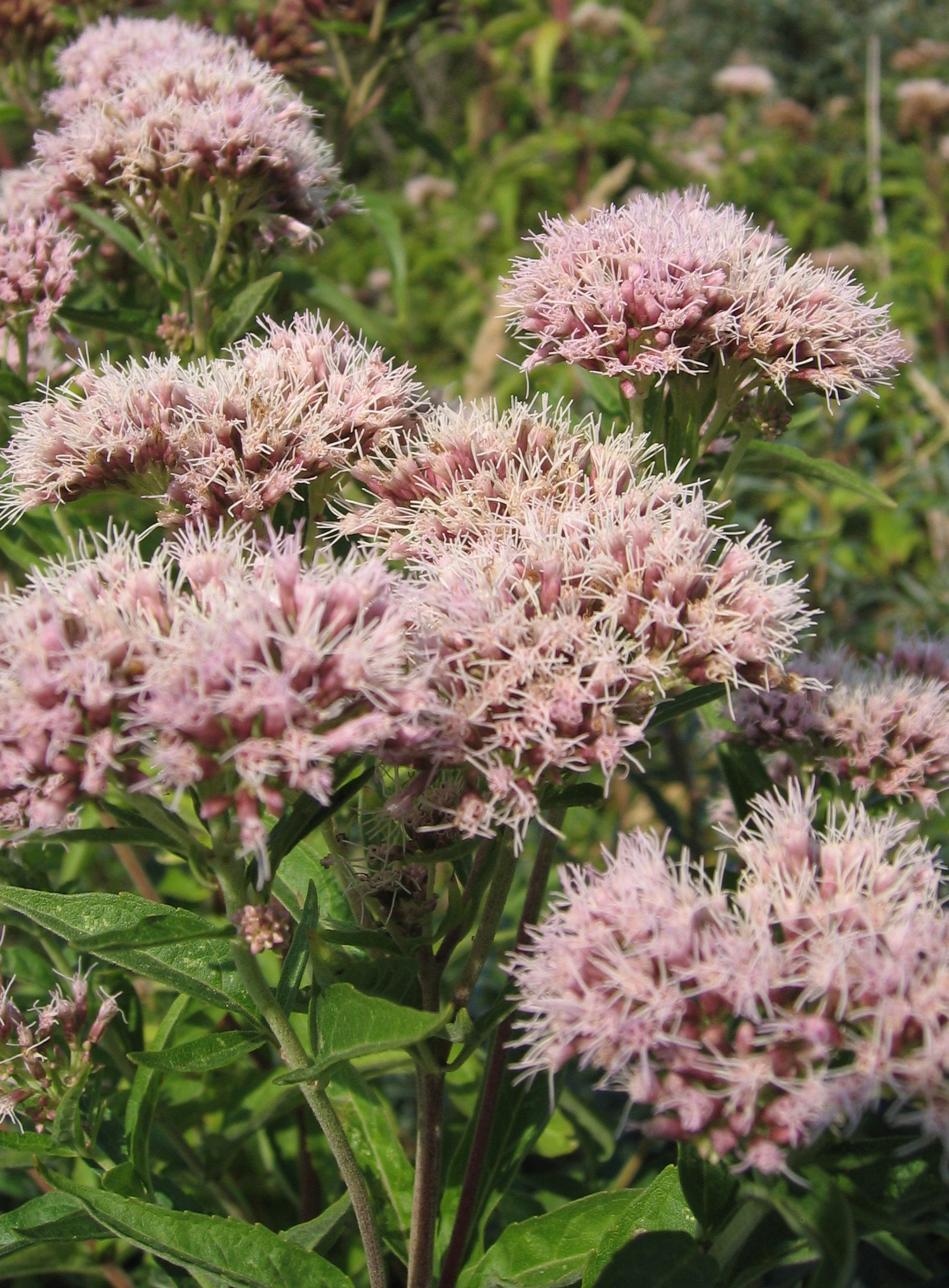 Eupatorium cannabinum, IJmuiden, the Netherlands